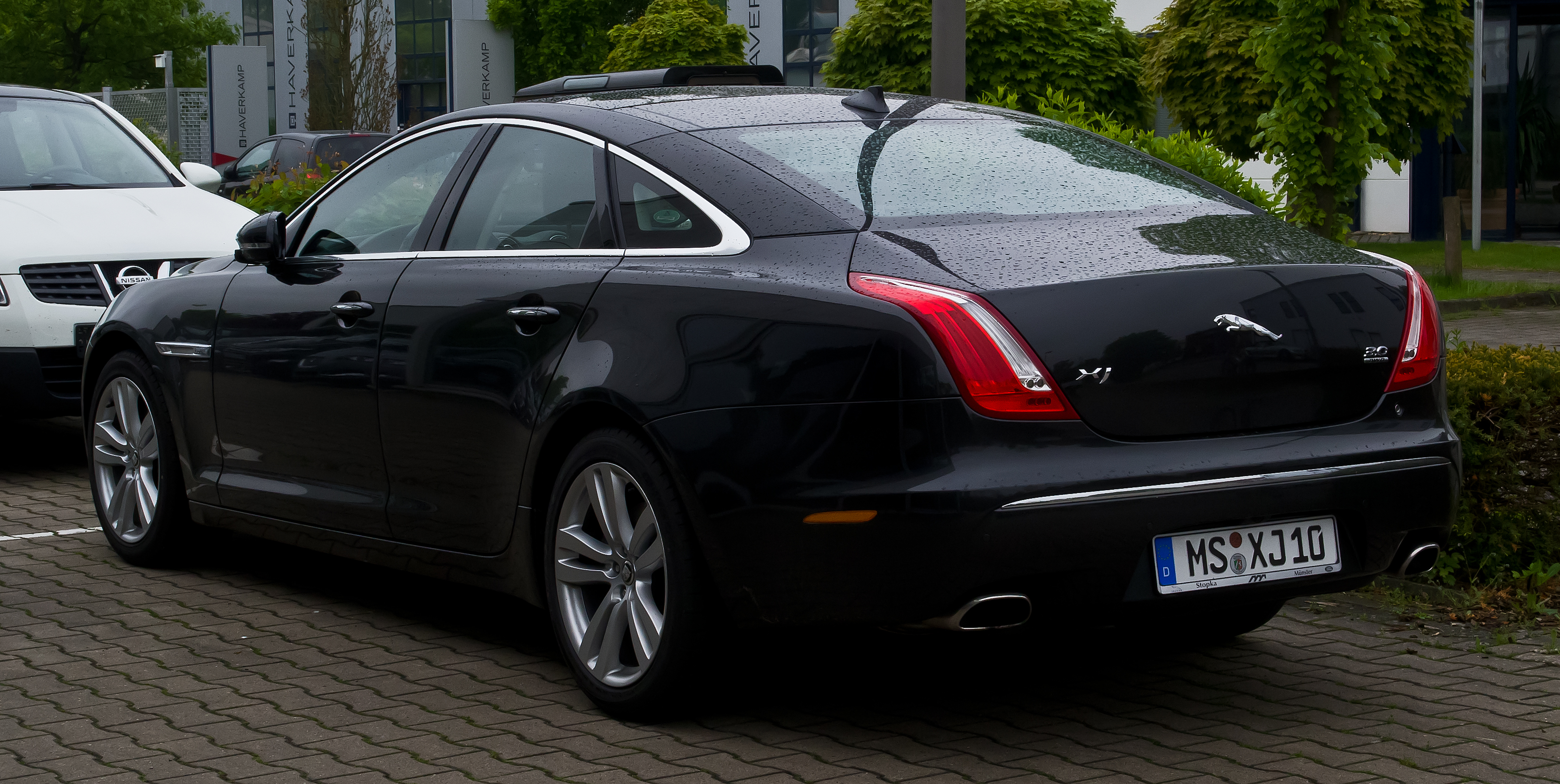 Jaguar XJ 3.0 Kompressor AWD Premium Luxury (X351)